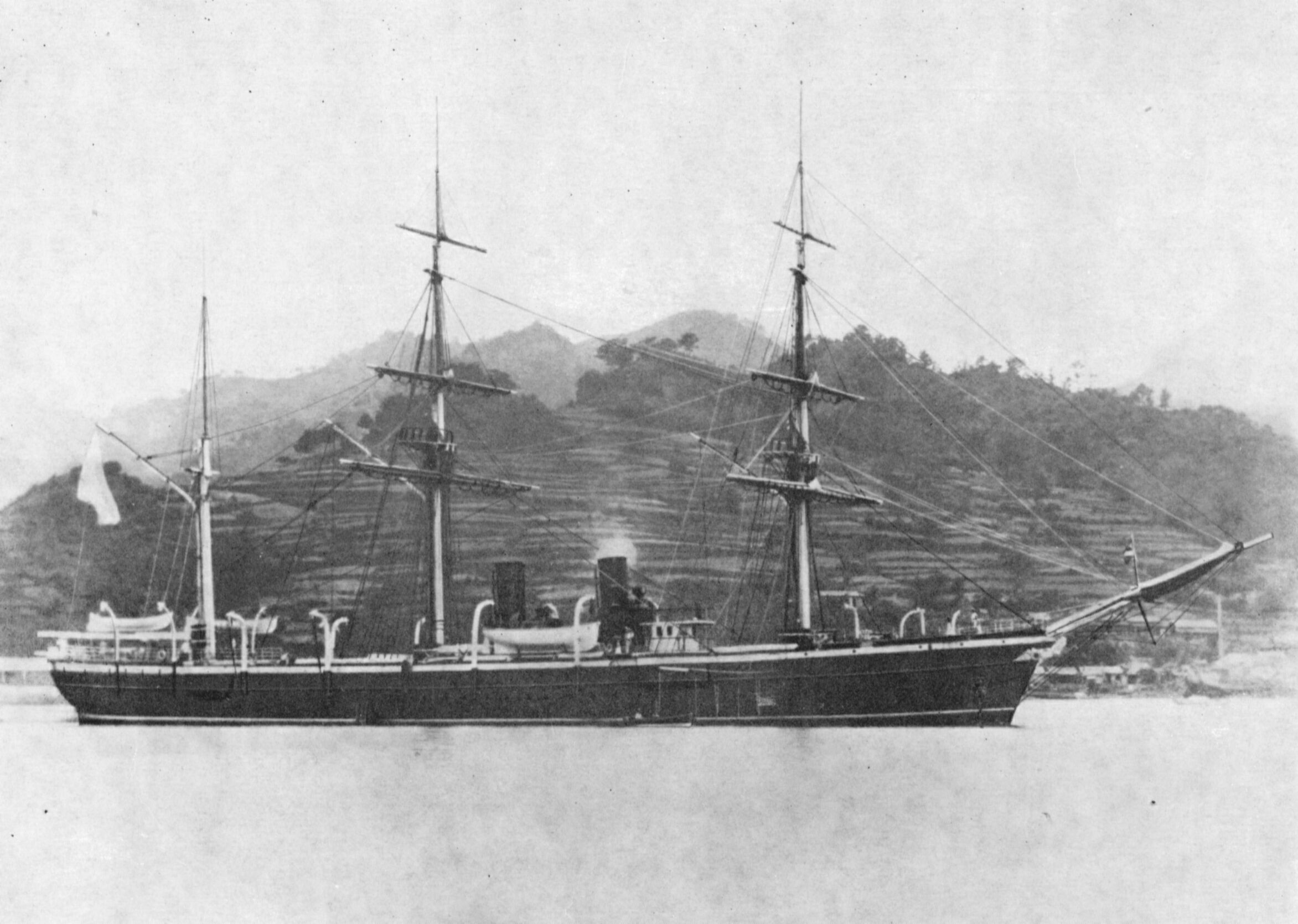 Imperial Russian cruiser Vityaz'.